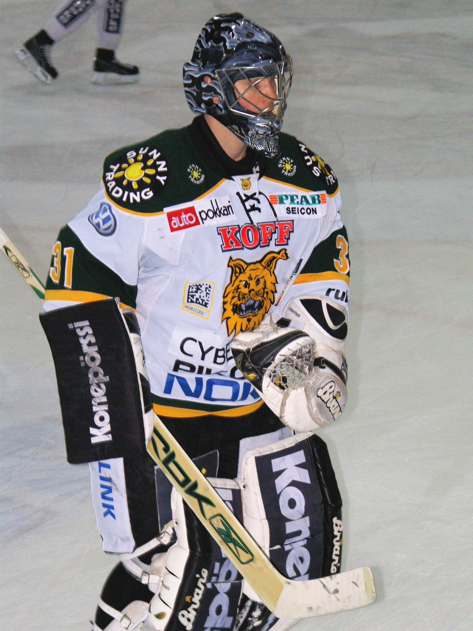 Finnish ice hockey goaltender Markus Korhonen playing for Ilves Tampere in March, 2009.